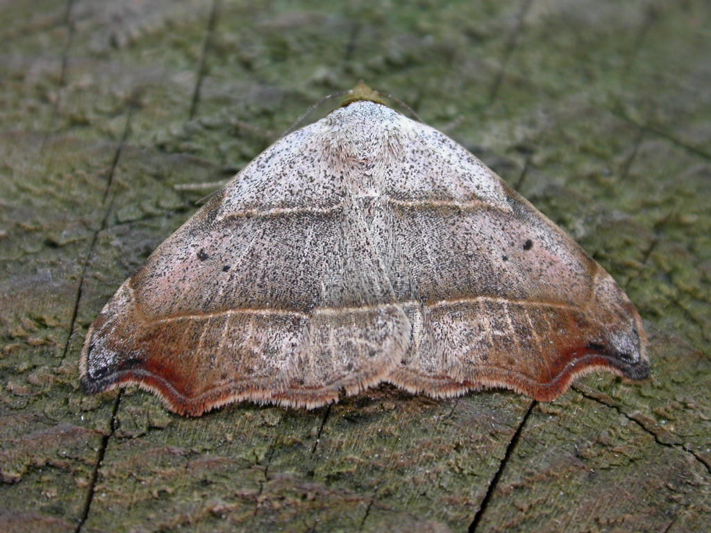 Laspeyria flexula, to MV light, Hellerup, Denmark, 3 July 2005